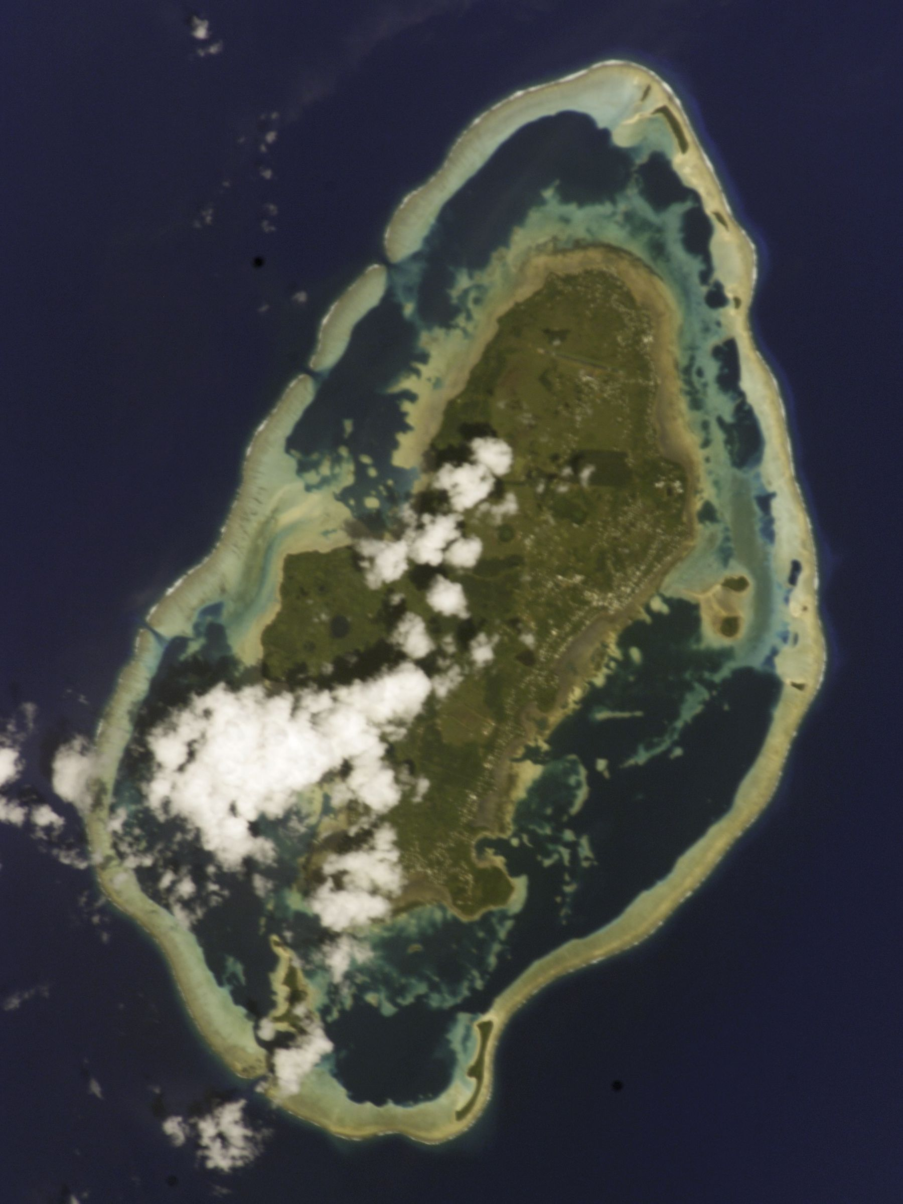 NASA astronaut image of Wallis Island (Uvea), Wallis and Futuna